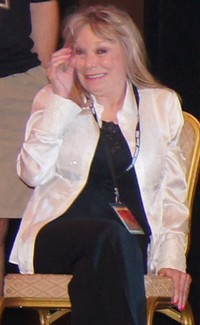 Marilyn Burns at the TCM panel at Days of the Dead Indianapolis 2012.